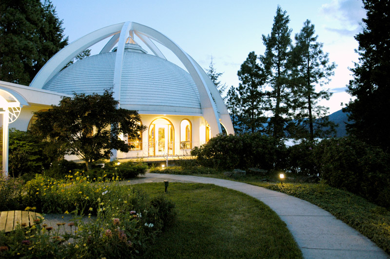 Temple at Yasodhara Ashram